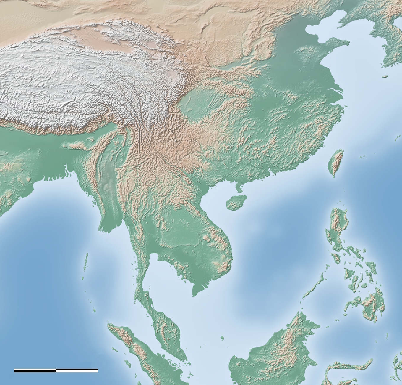 Derived from File:Asia vectorial map.jpg